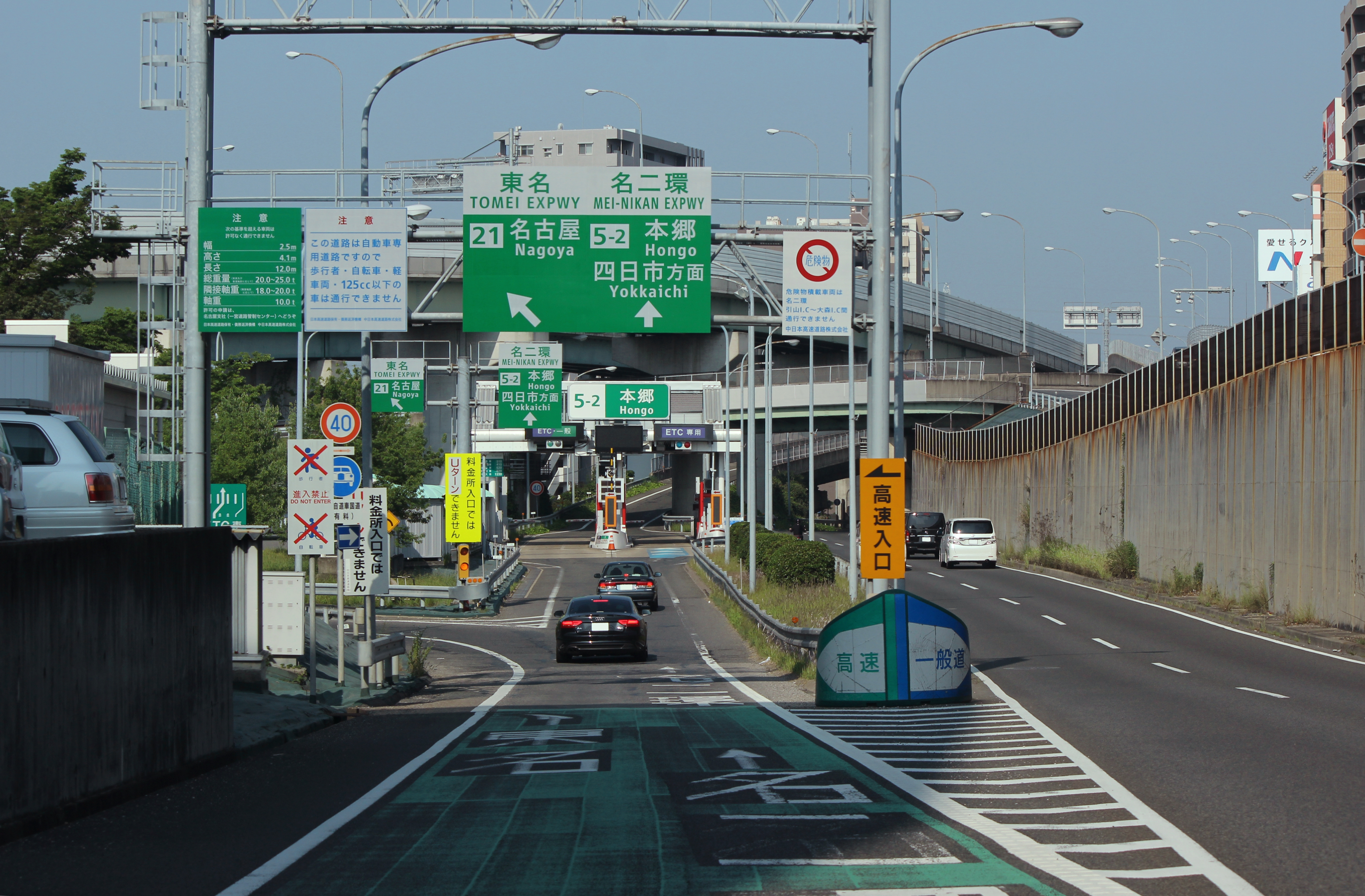 Entrance to Nagoya and Hongo Interchanges on the Tomei and Nagoya-Daini-Kanjo (Meinikan) Expressways